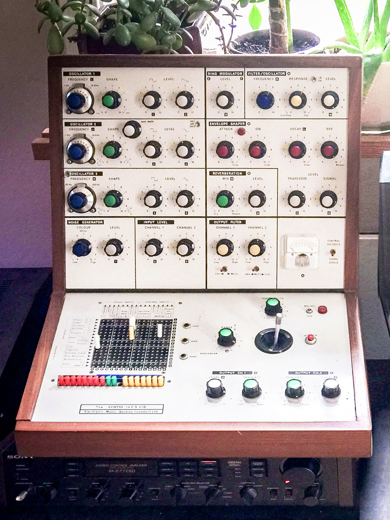 EMS Synthi (VCS 3) II - Nerd heaven in Kimito (2015-05-16 13.04.49 by Ville Hyvönen) original description Synths, vinyls and cartoons. Nerd heaven in Kimito.